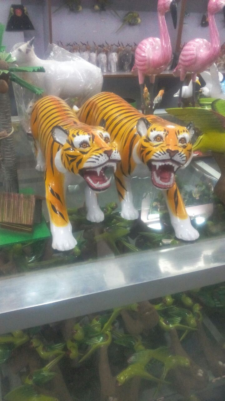 Nirmal wooden toys-tiger couple